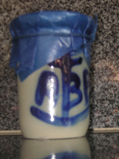 ABB mustard pot, Creamware.